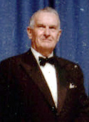 Texas governor Bill Clements